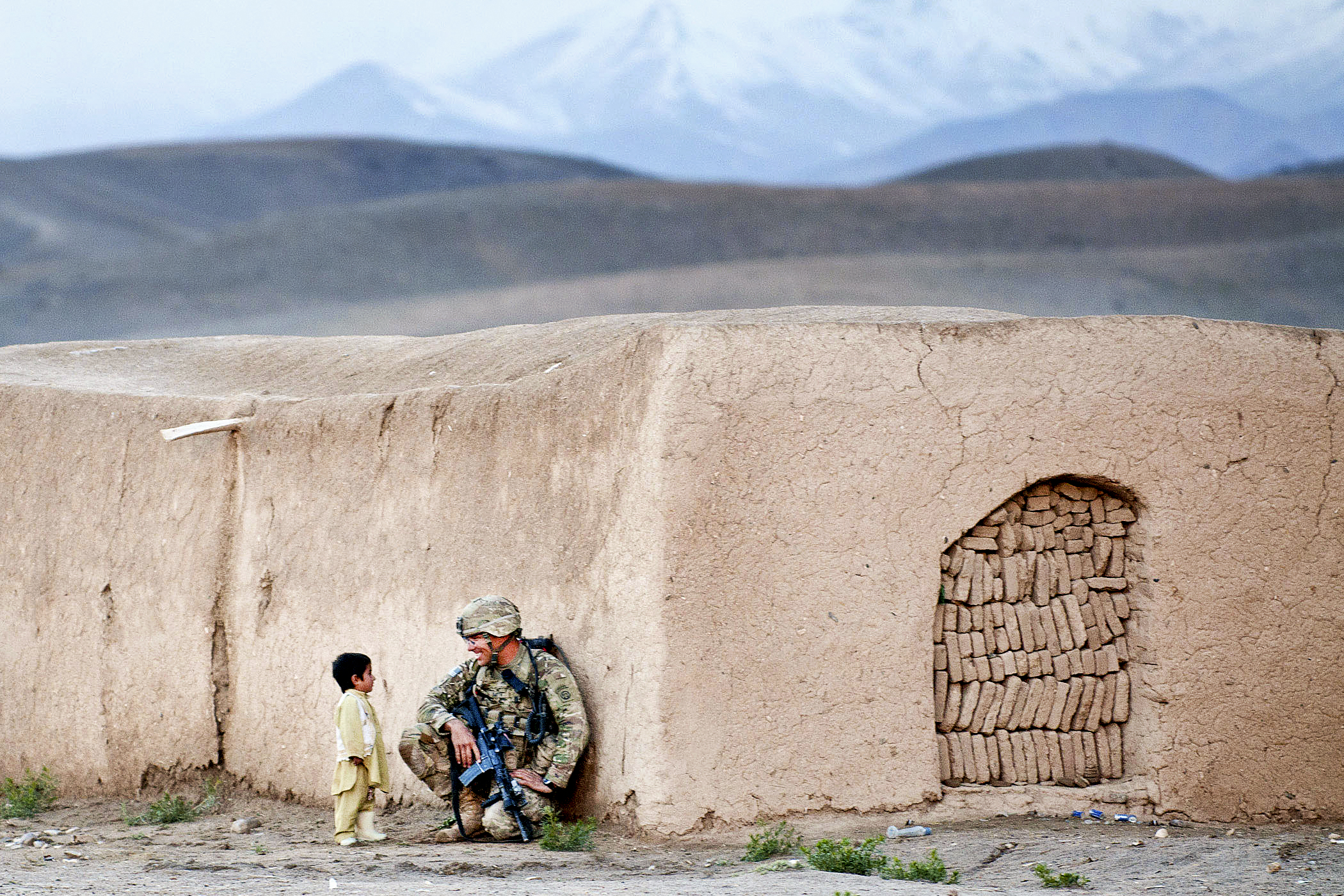 Sgt. Joshua Smith, a paratrooper with the 82nd Airborne Division’s 1st Brigade Combat Team, chats with an Afghan boy during an Afghan-led clearing operation April 28, 2012, Ghazni province, Afghanistan. The soldier studied the Pashtun language prior to his deployment to southern Ghazni. (U.S. Army photo by Sgt. Michael J. MacLeod)